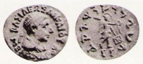 Coin of Menander II, "Dikaiou". "Coins of the Indo-Greeks", Whitehead, 1914 edition. Public Domain. Obv: Menander wearing a diadem. Greek legend: ΒΑΣΙΛΕΩΣ ΔΙΚΑΙΟΥ ΜΕΝΑΝΔΡΟΥ (King Menander the Just). Rev: Winged figure bearing diadem and palm, with halo, probably Nike. The Kharoshthi legend reads MAHARAJASA DHARMIKASA MENADRASA (Great King, Menander, follower of the Dharma, Menander).